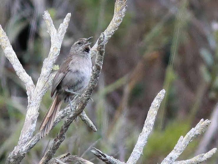 Cipo Canastero